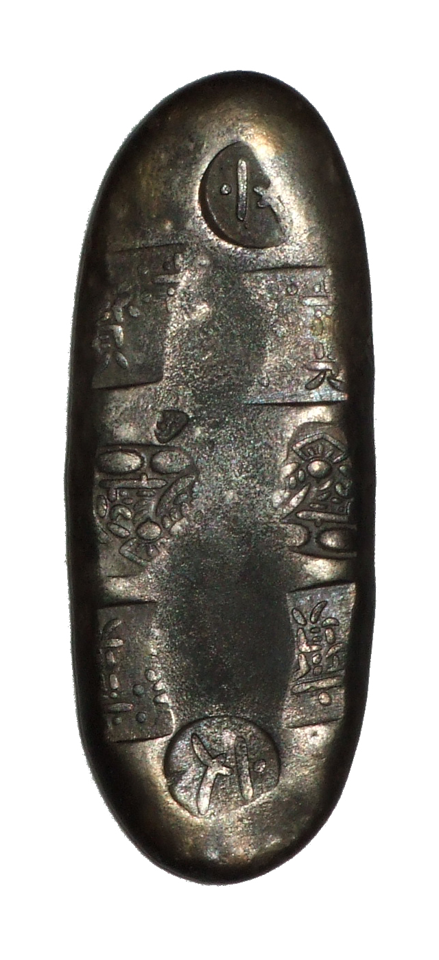 Bunzi-chogin(silver)